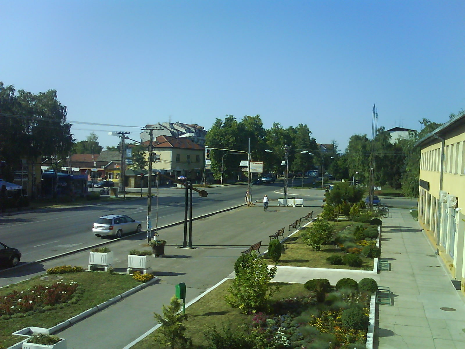 Town center of Temerin